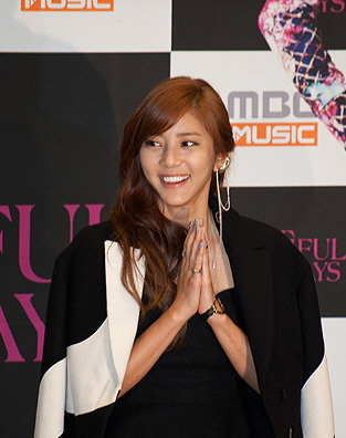 Son Dam-bi at the press conference of MBC Music Son Dam-bi's Beautiful Days, on March 5, 2013